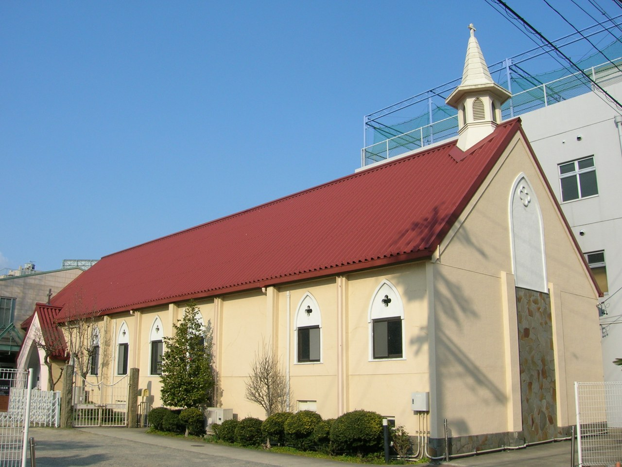 Nagoya St.Mark's Church Loc: Higashi-ku, Nagoya city, Aichi Prefecture, Japan. 名古屋聖マルコ教会聖堂 撮影場所 愛知県名古屋市東区